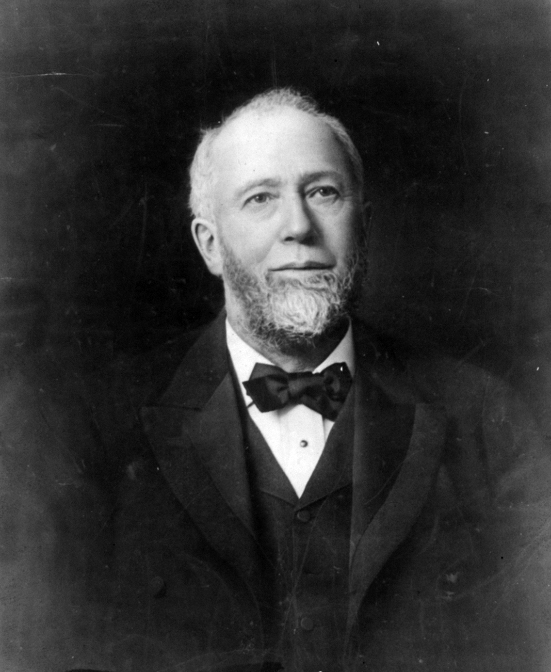 Half length, facing slightly right.